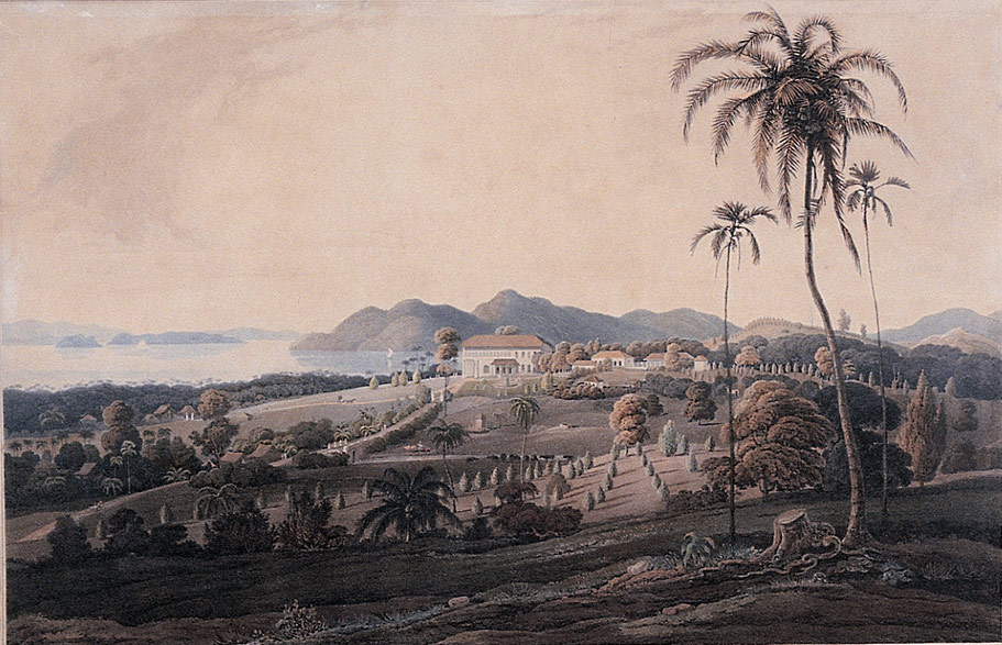 Title: View Glugor House and Spice Plantations, Prince of Wales's Island Media: Aquatint Width: 710 mm (28 in) Height: 460 mm (18 in) Year of creation: 1818 Mode of acquisition: Presented by Estate of late Heah Joo Seang, 1969